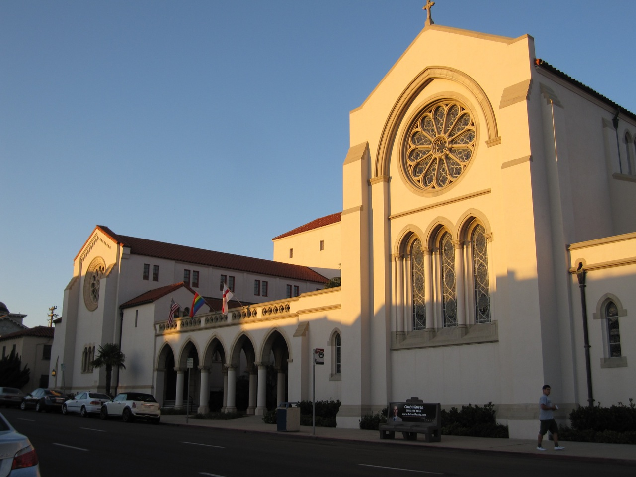 St. Paul's Episcopal Cathedral in San Diego, California.